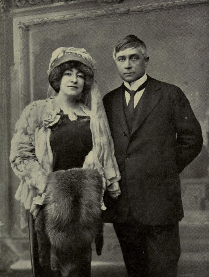 "Monsieur and Madame Maeterlinck."